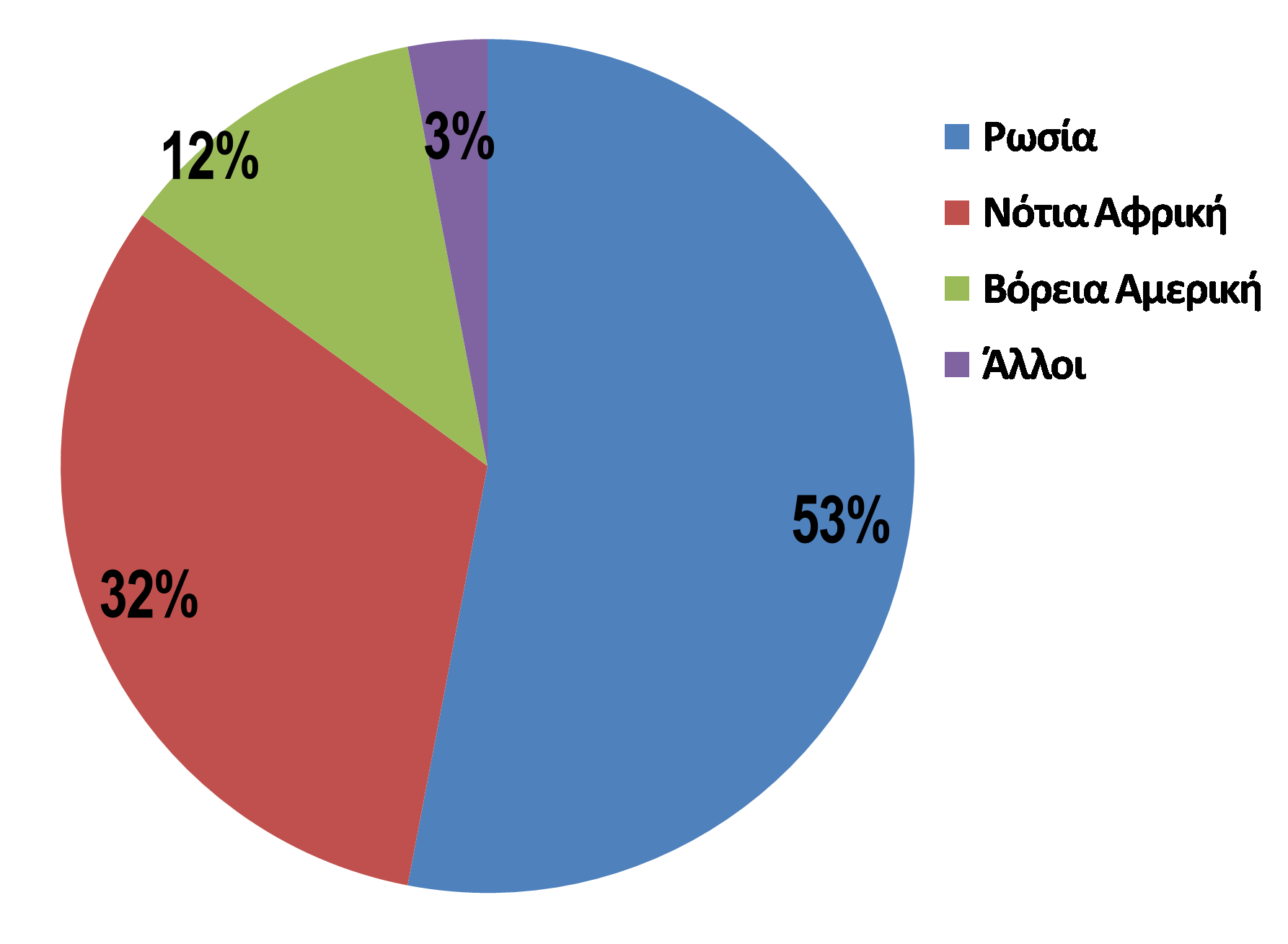 Pd supply 2007 (8585000 oz)